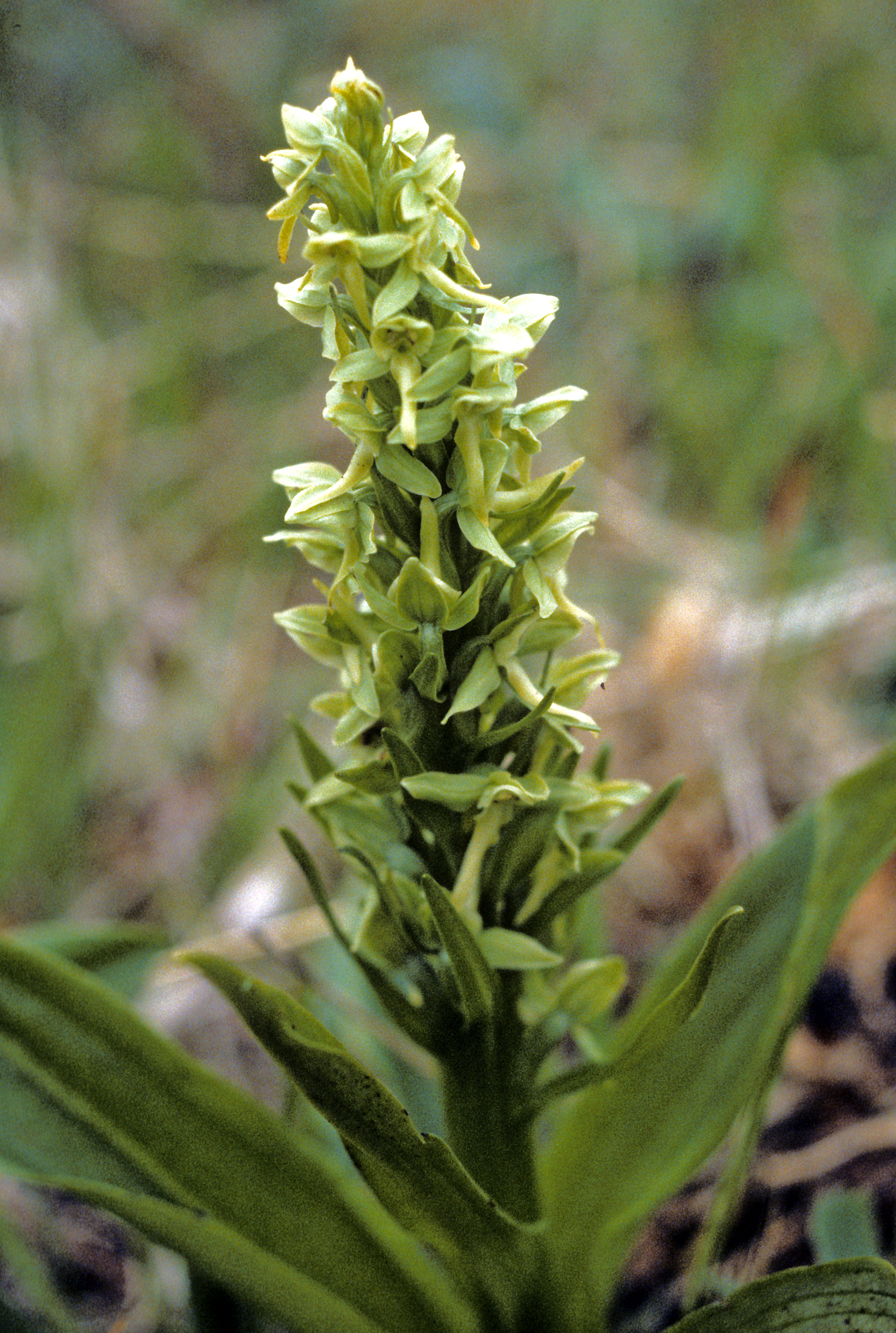 Behring Orchid - Platanthera tipuloides . Photo taken on Amchitka Island, Aleutian Islands NWR